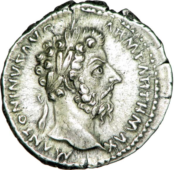 Denarius of Marcus Aurelius, Rome, 168 AD